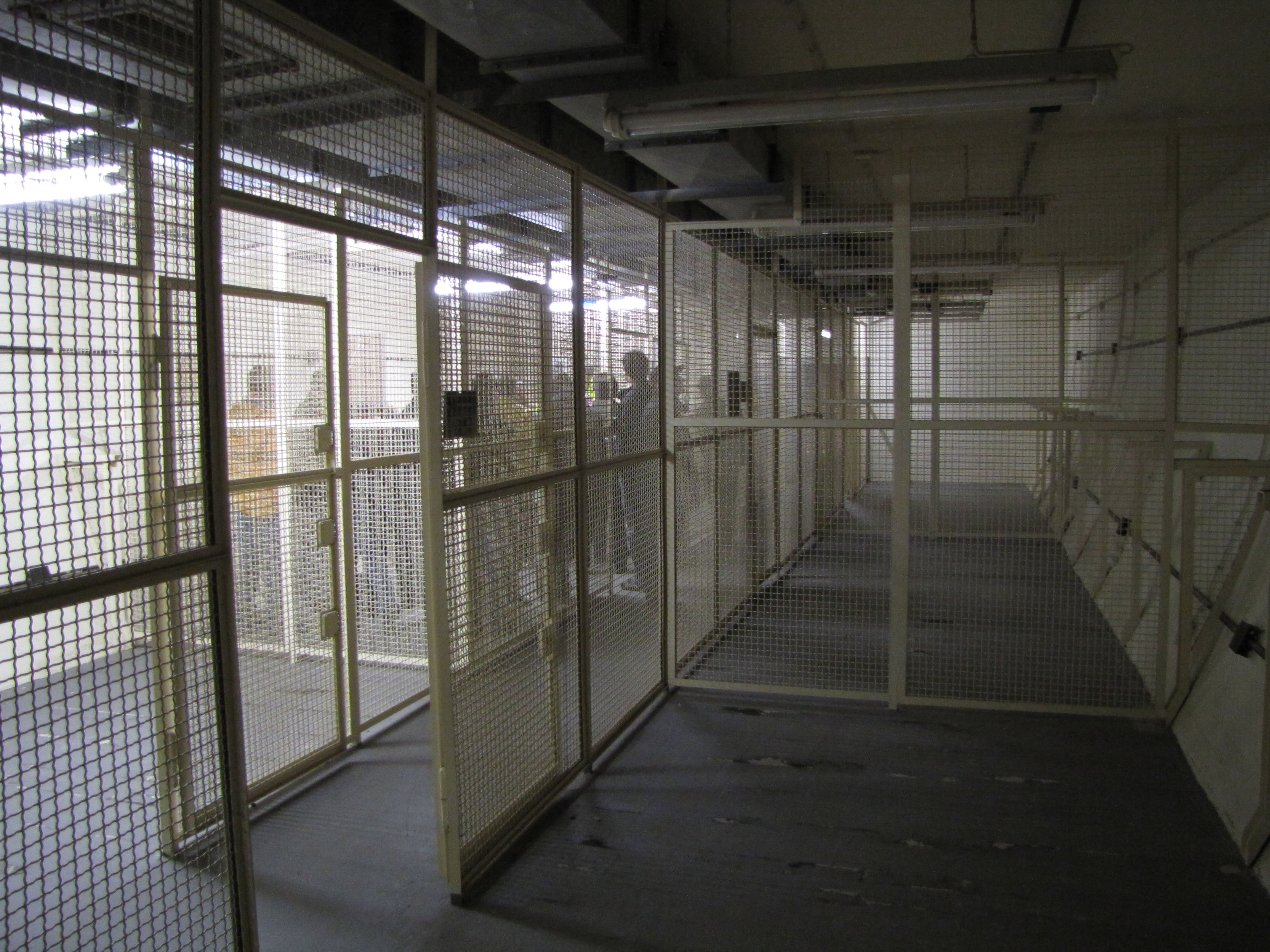 Bunker of the Deutsche Bundesbank in Cochem: big vault